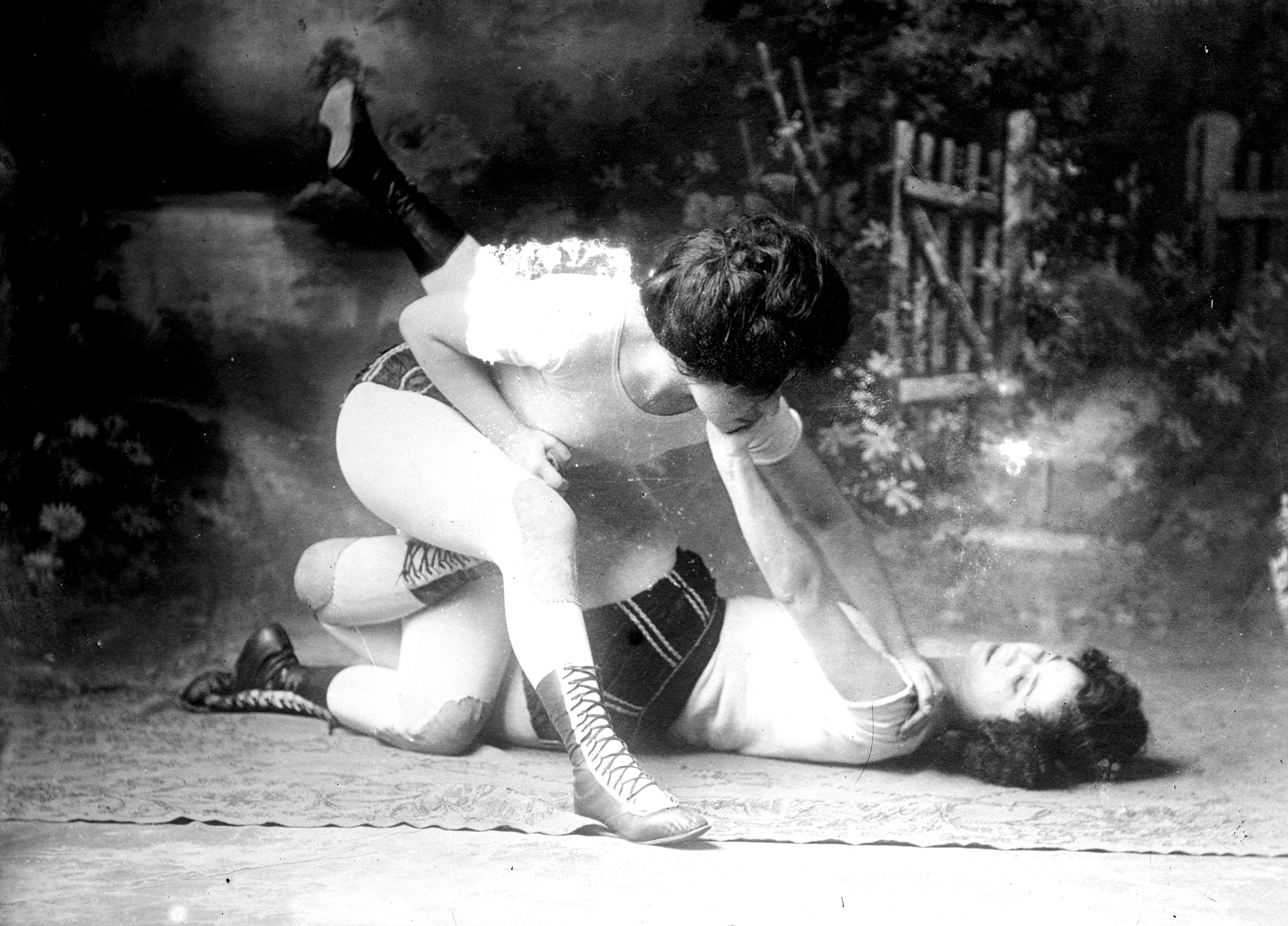 The Bennett Sisters